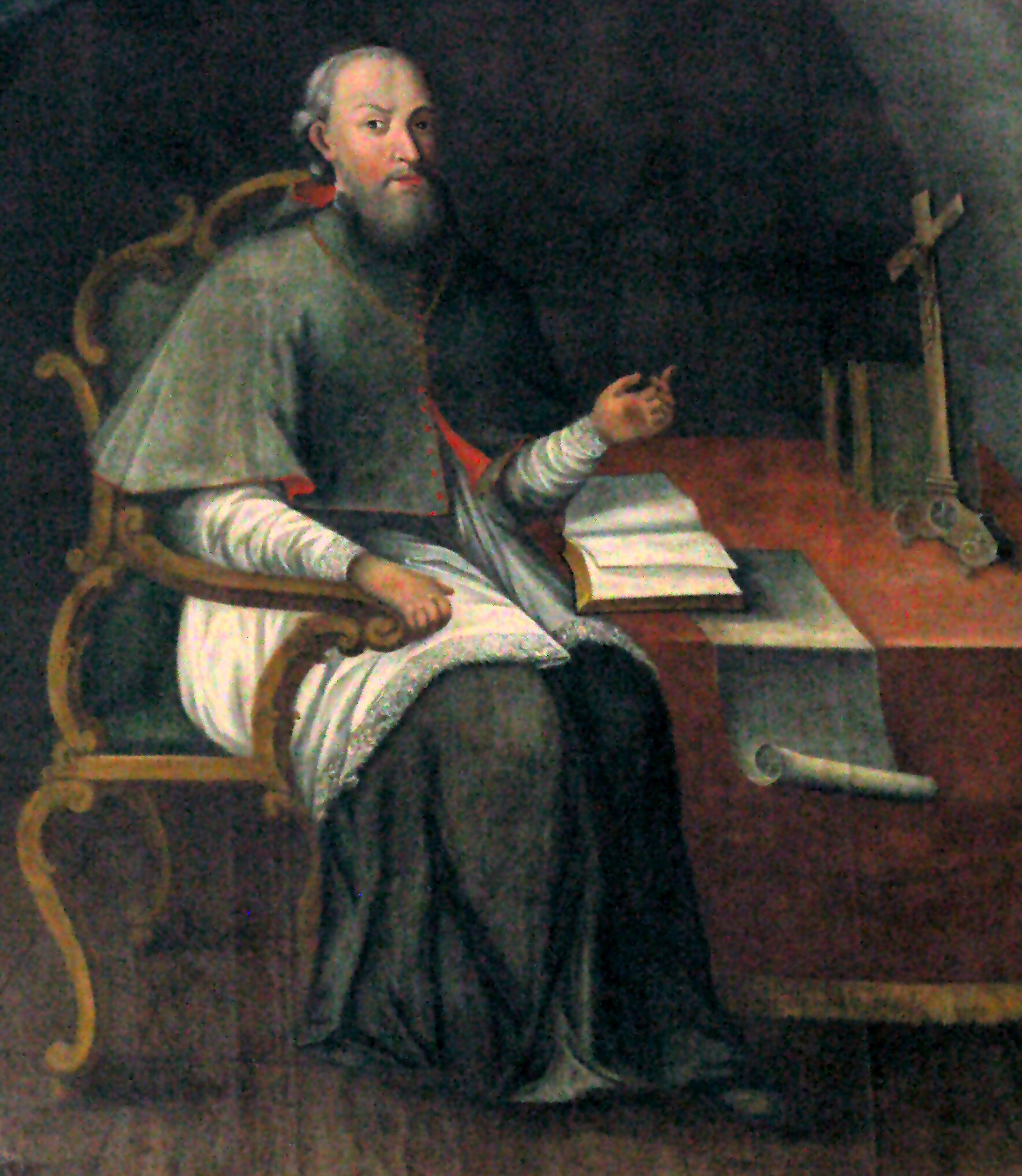 bishop Eric of Winsen in franciscan monastery in Przemyśl